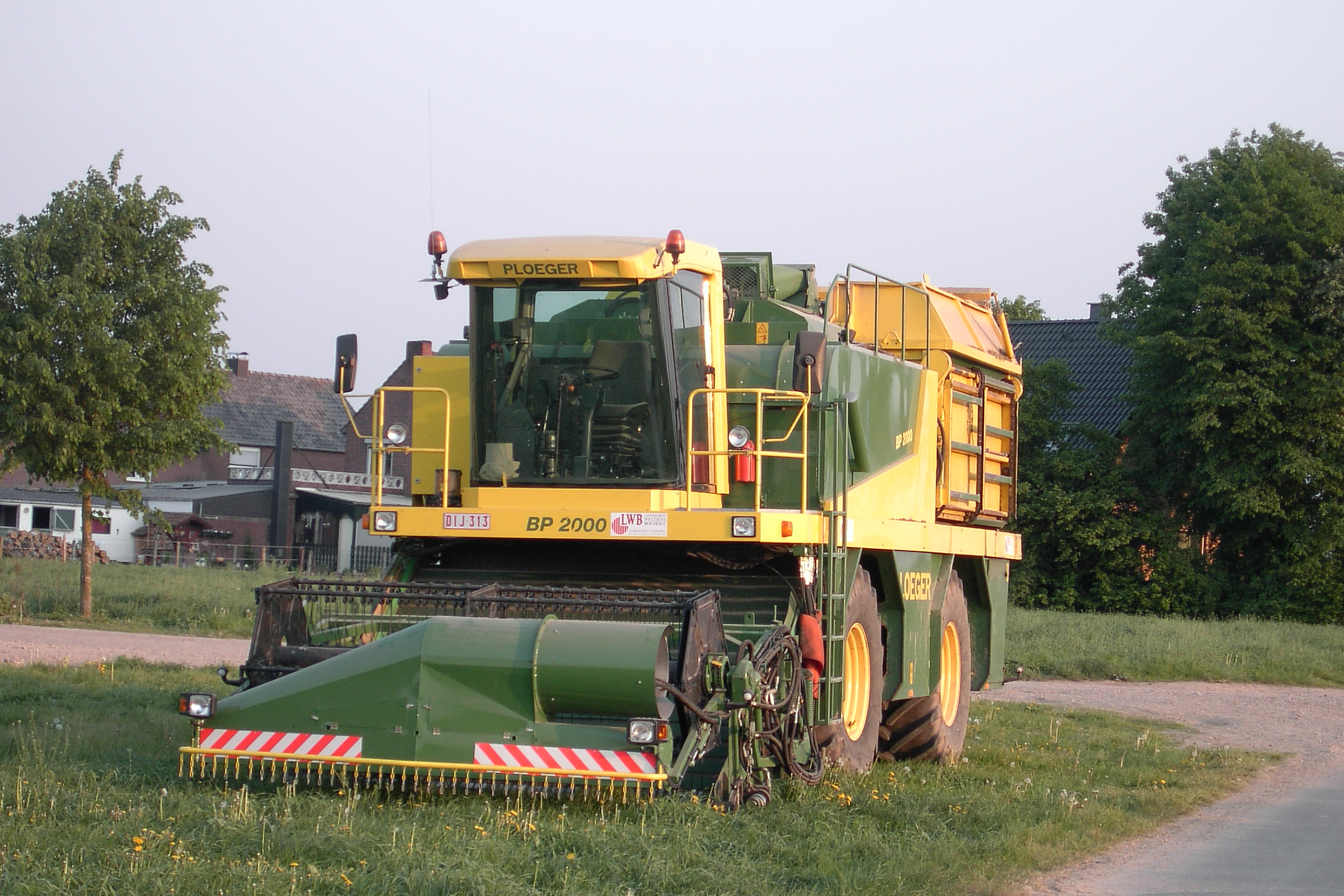 A Ploeger BP 2000 bean harvester fitted with a spinach conversion kit (spinach header)